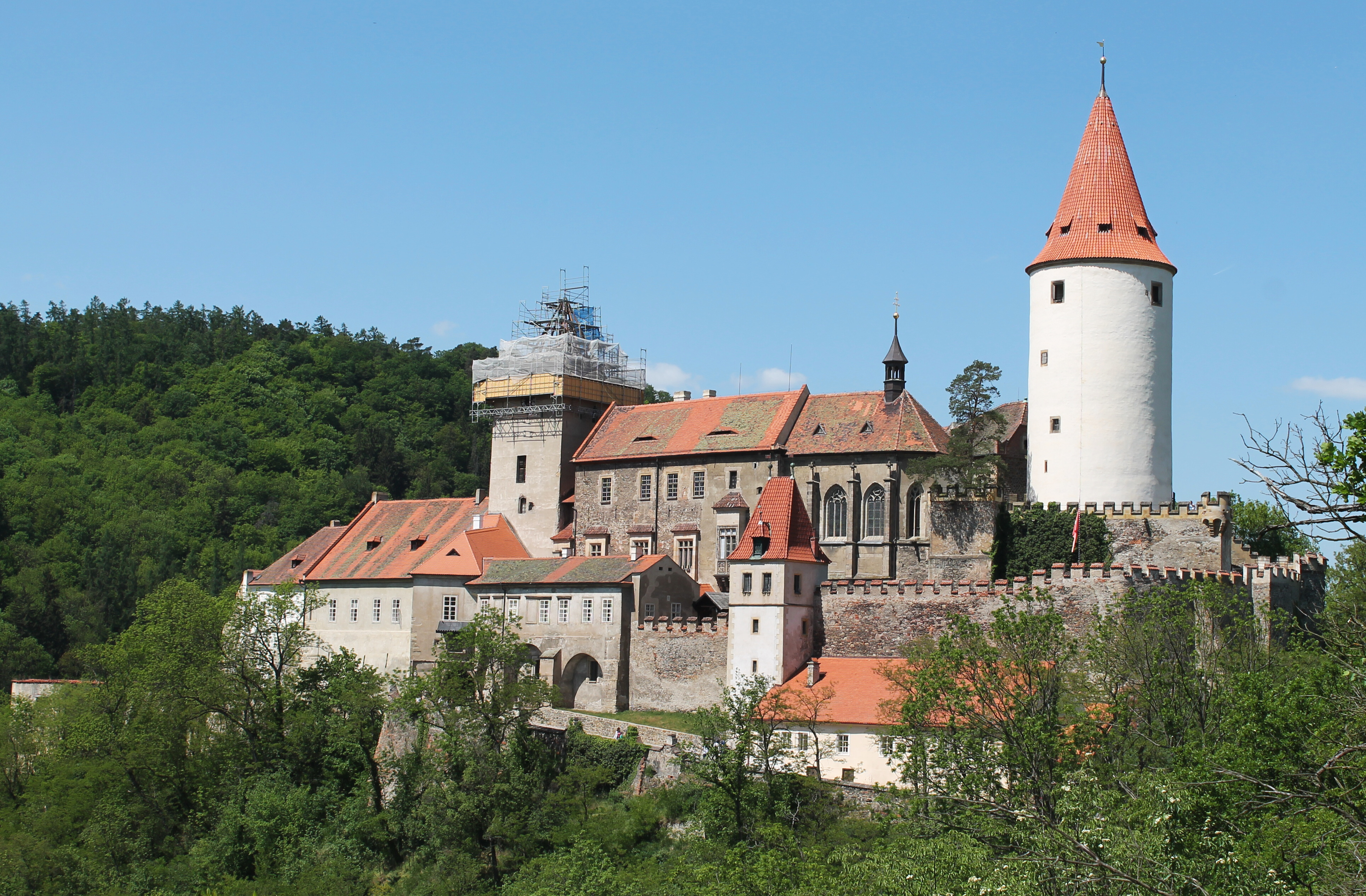 Křivoklát castle, Rakovník District, Czech Republic